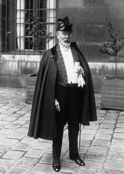 French Prime Minister Louis Barthou (1862-1934) as a member of the Académie française wearing the ceremonial grand habit vert, hat and cape.